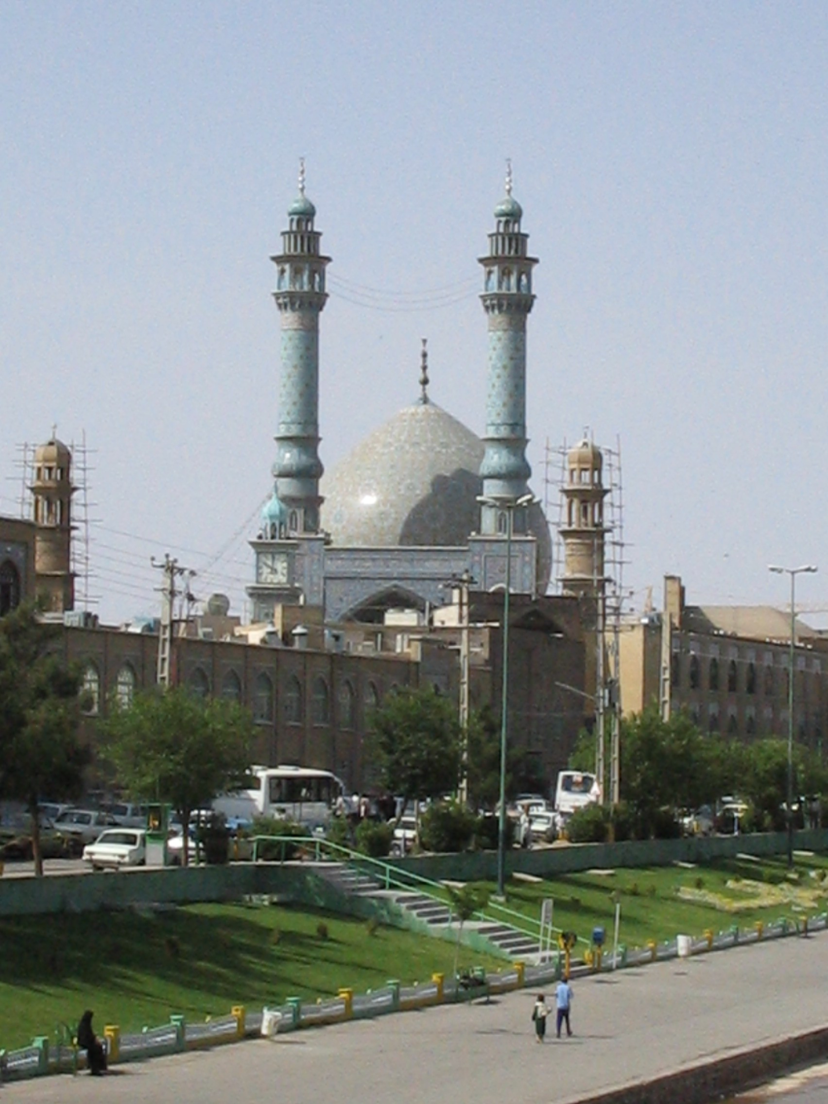 Shrine of Hazrat Masumeh from the other side of the river, Qom, Iran.